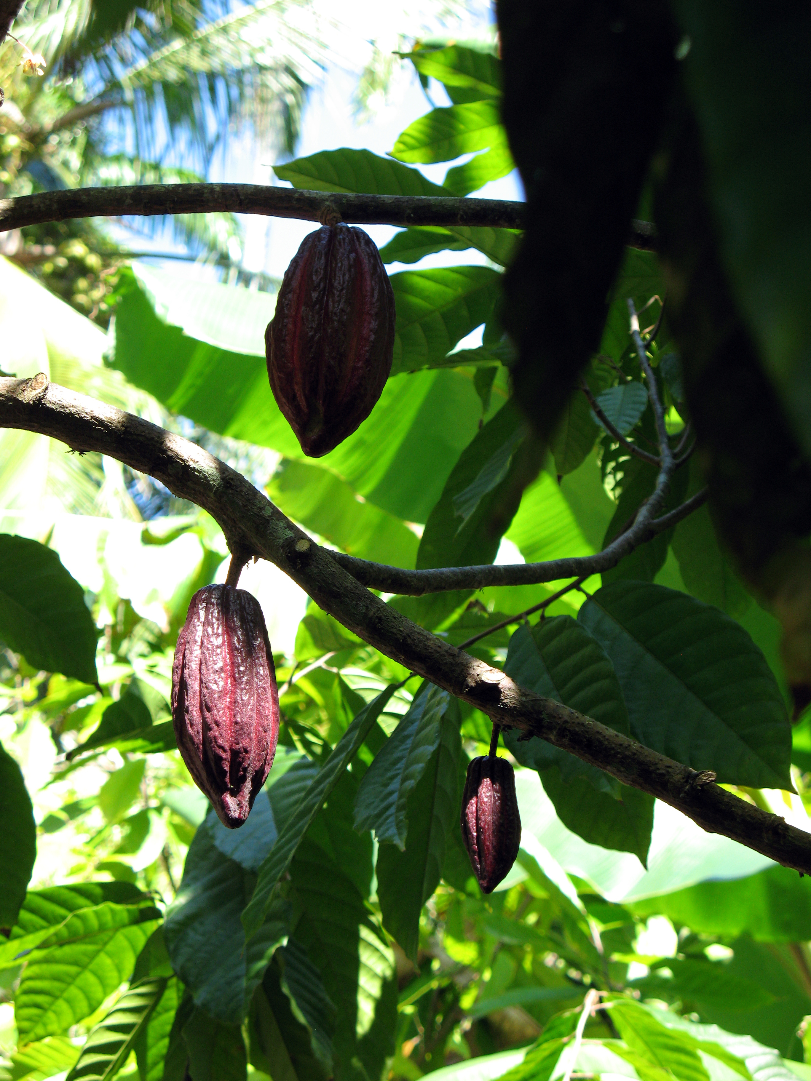 Cacao tree